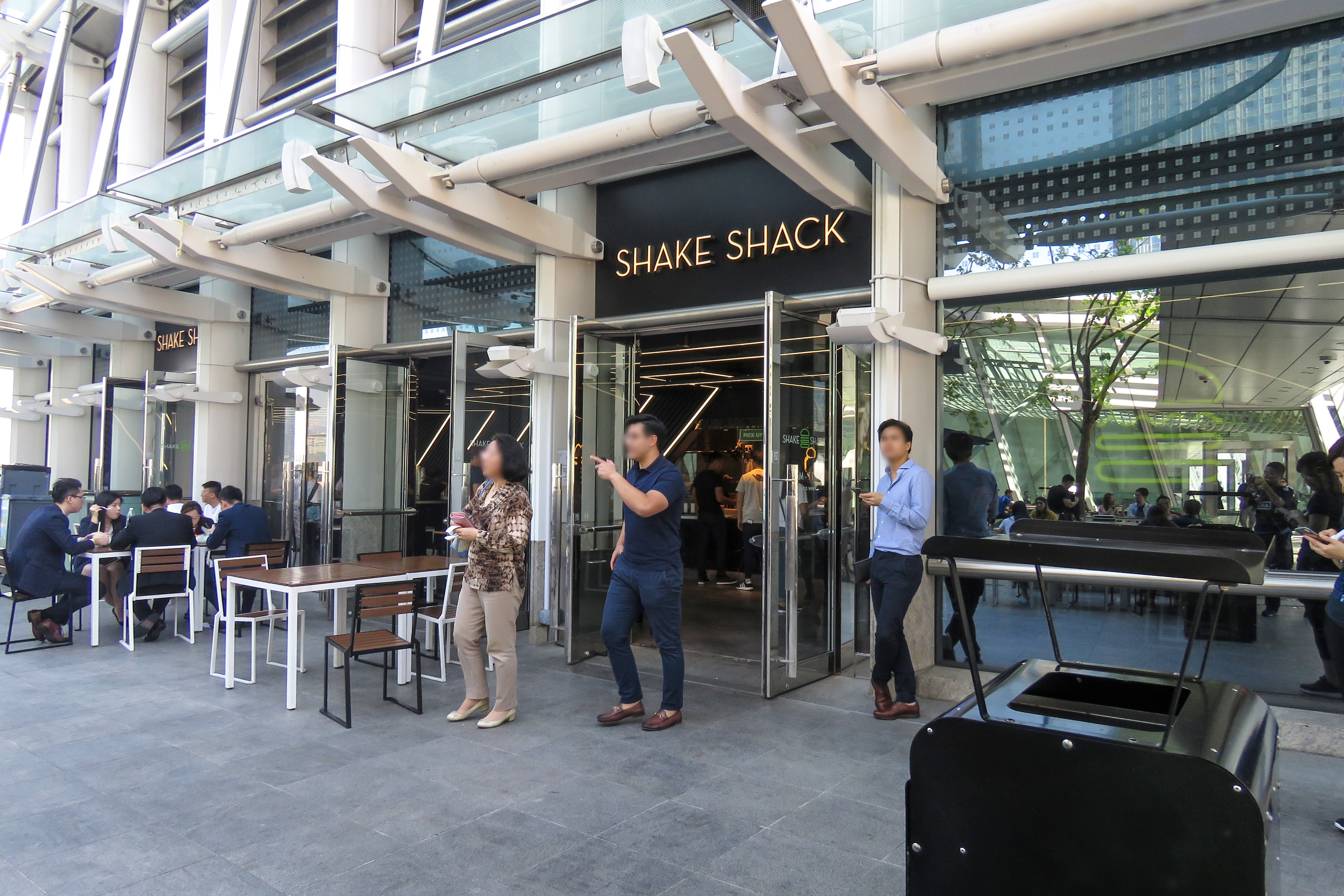 I've come to this restaurant at Podium 4 not just for burgers, but also for views.